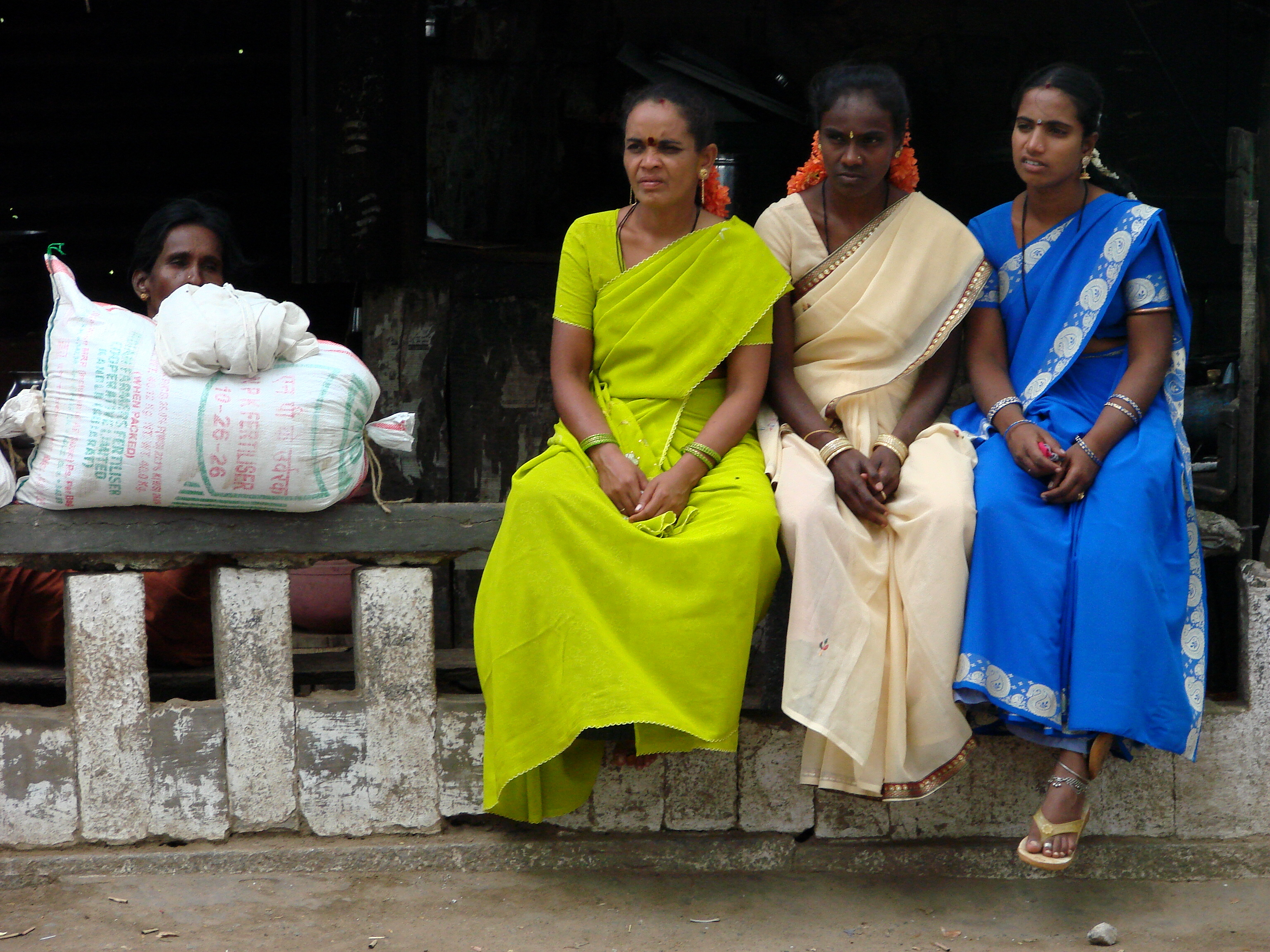 Village women at a crossroads near Mysore and Somnathpur, India. June 2008.